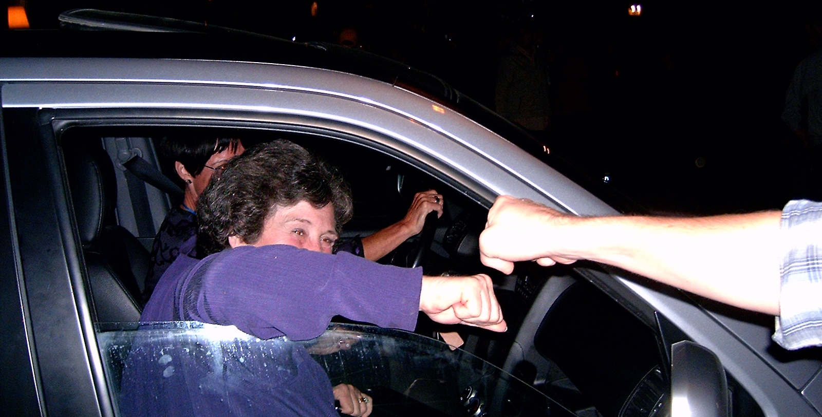 Former Queen's University Principal Karen Hitchcock greets a student during Queen's University Homecoming Weekend in 2005.